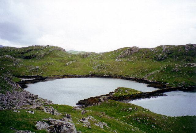 Lobster Ponds on Pabbay Mor Tidal lagoon on the island of Pabay Mor, Outer Hebrides, previously used as a lobster holding tank; lobsters caught in creels at sea were held here until the market price in England merited shipping them south. A small secondary one can be seen at the upper left. Construction date unknown but there is a similar pond in Loch Risay on the nearby island of Great Bernera which was built c1860 and which is thought to have been one of the first of its type. Loch Roag.